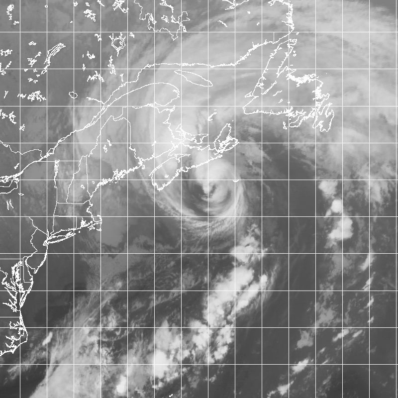 GOES-8 image of Hurricane Gustav beginning extratropical transition as it approaches Nova Scotia on September 12, 2006.